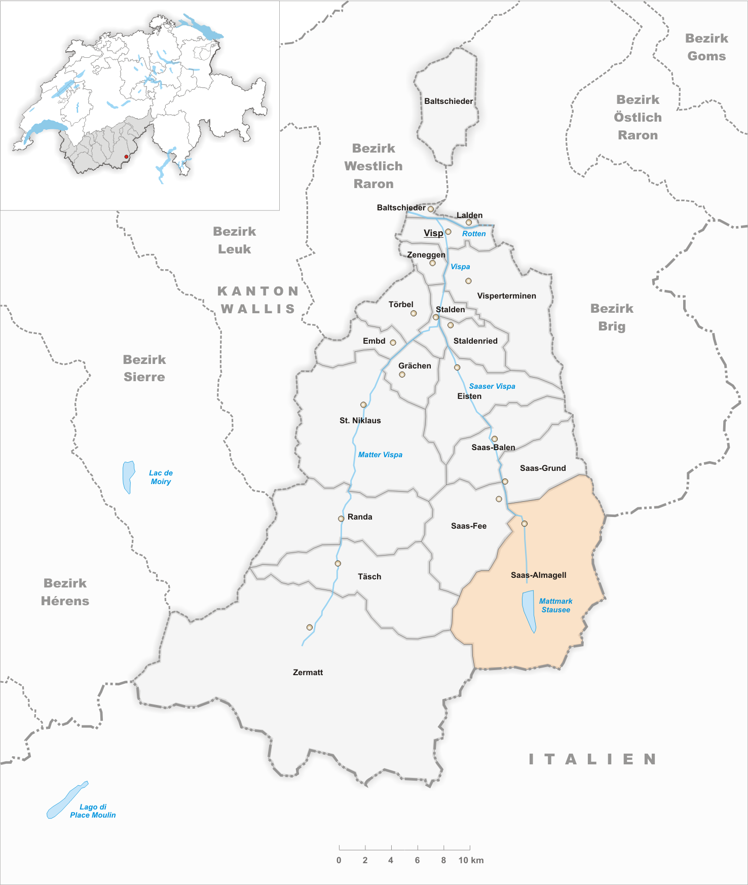 Municipality Saas Almagell